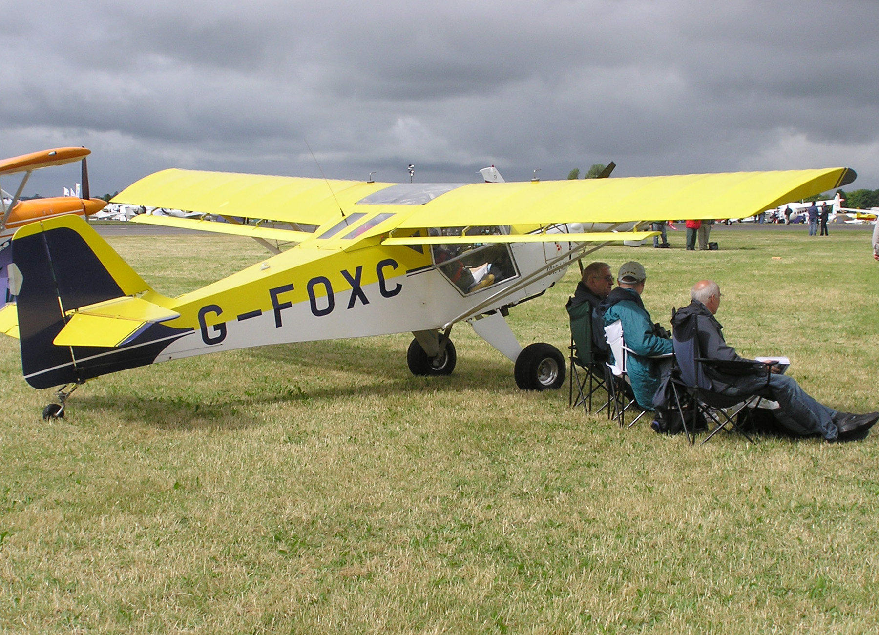 An aerofoil section is well displayed at the wing tip of this Denney Kitfox (G-FOXC), built in 1991. Photographed by Adrian Pingstone in July 2005 at Kemble Airfield, Gloucestershire, England, and released to the public domain.